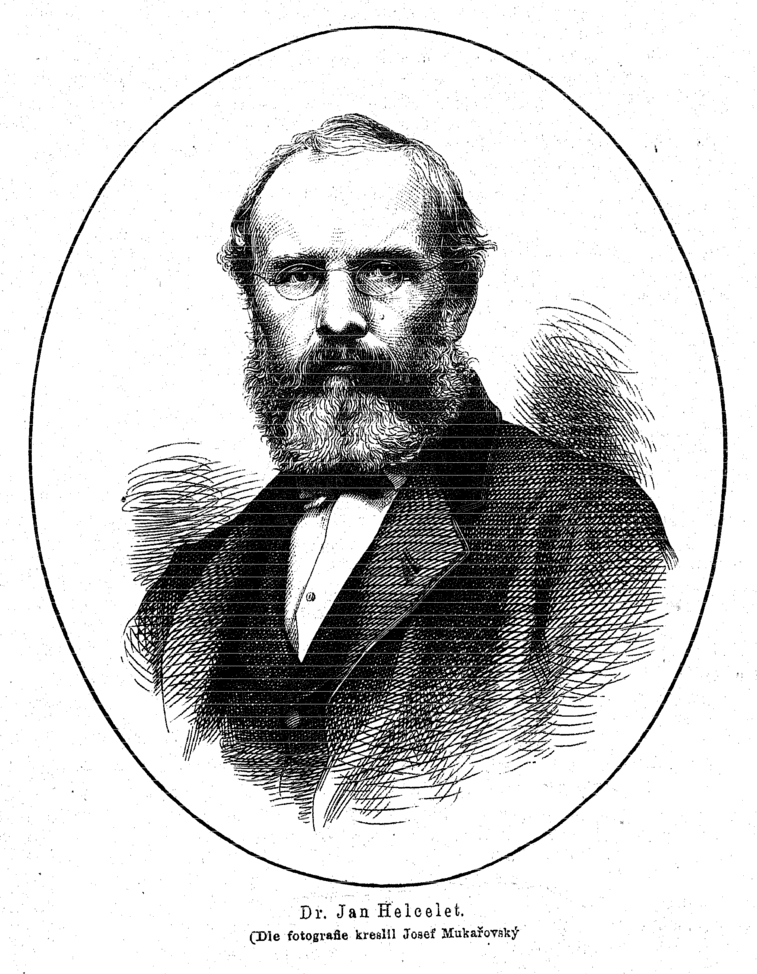 Portrait of Jan Helcelet (1812-1876), Moravian biologist and politician.